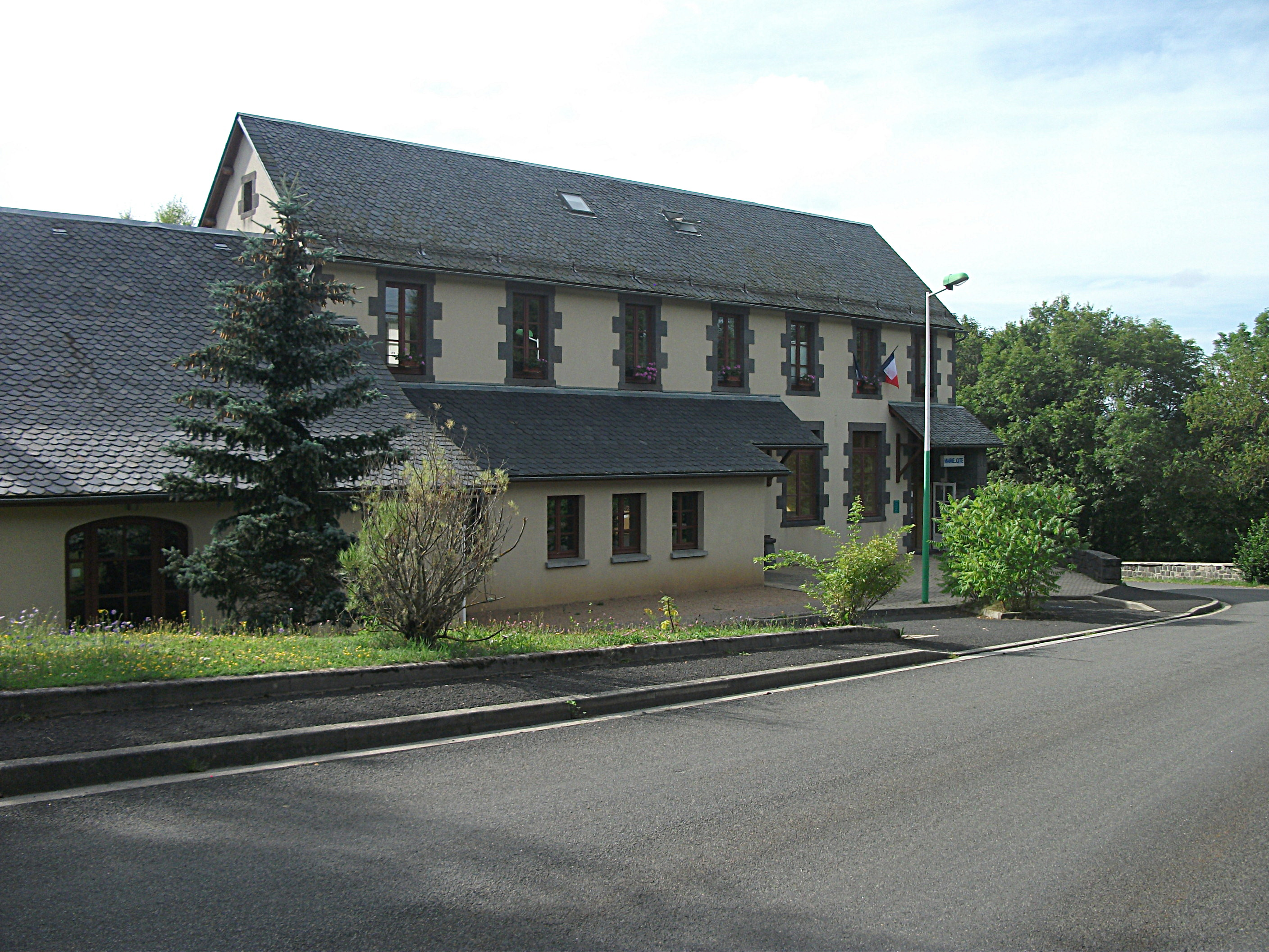 Town hall of Mazaye, Puy-de-Dôme, Auvergne-Rhône-Alpes, France. [16530]